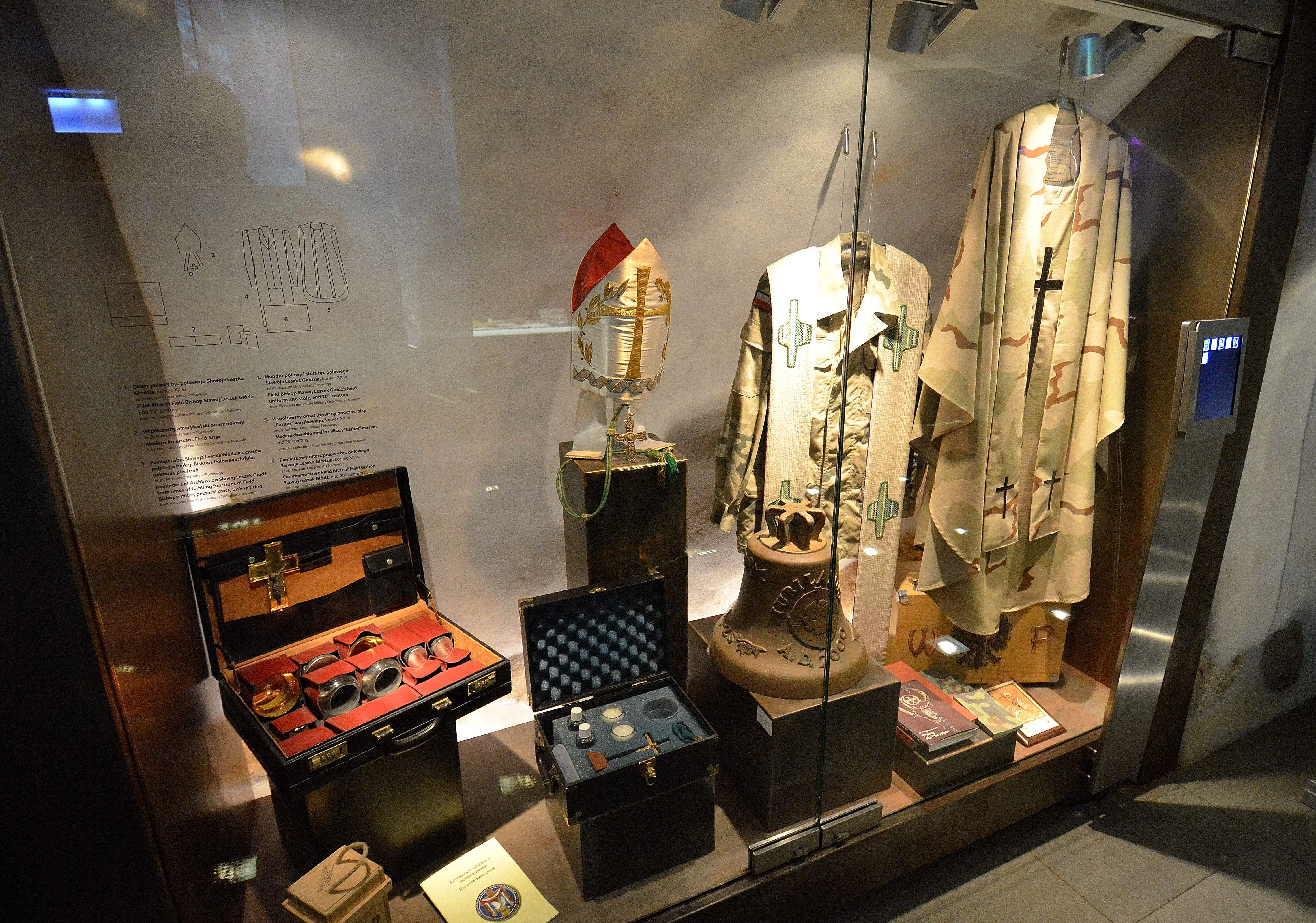 Museum of the Military Ordinariate in Warsaw